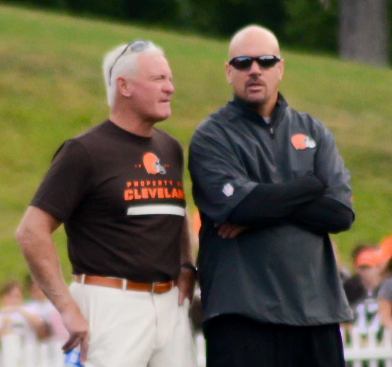 Browns owner Jimmy Haslam (left) and head coach Mike Pettine (right) at 2014 training camp.